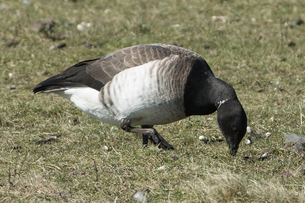 Pale-bellied brant goose (Branta bernicla hrota), on the island of Hallig Hooge, Germany.